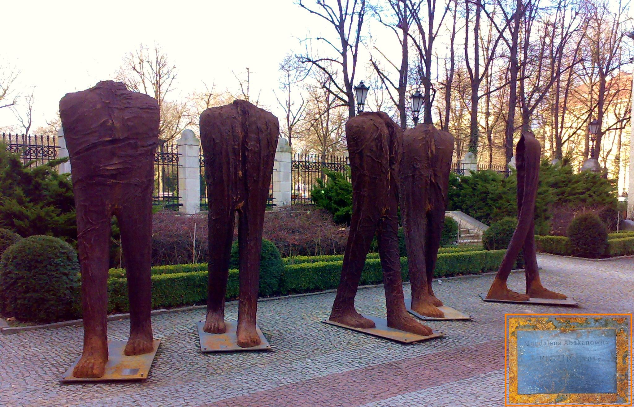 Poznan, 5 Figur from Magdalena Abakanowicz. Imperial Castle.